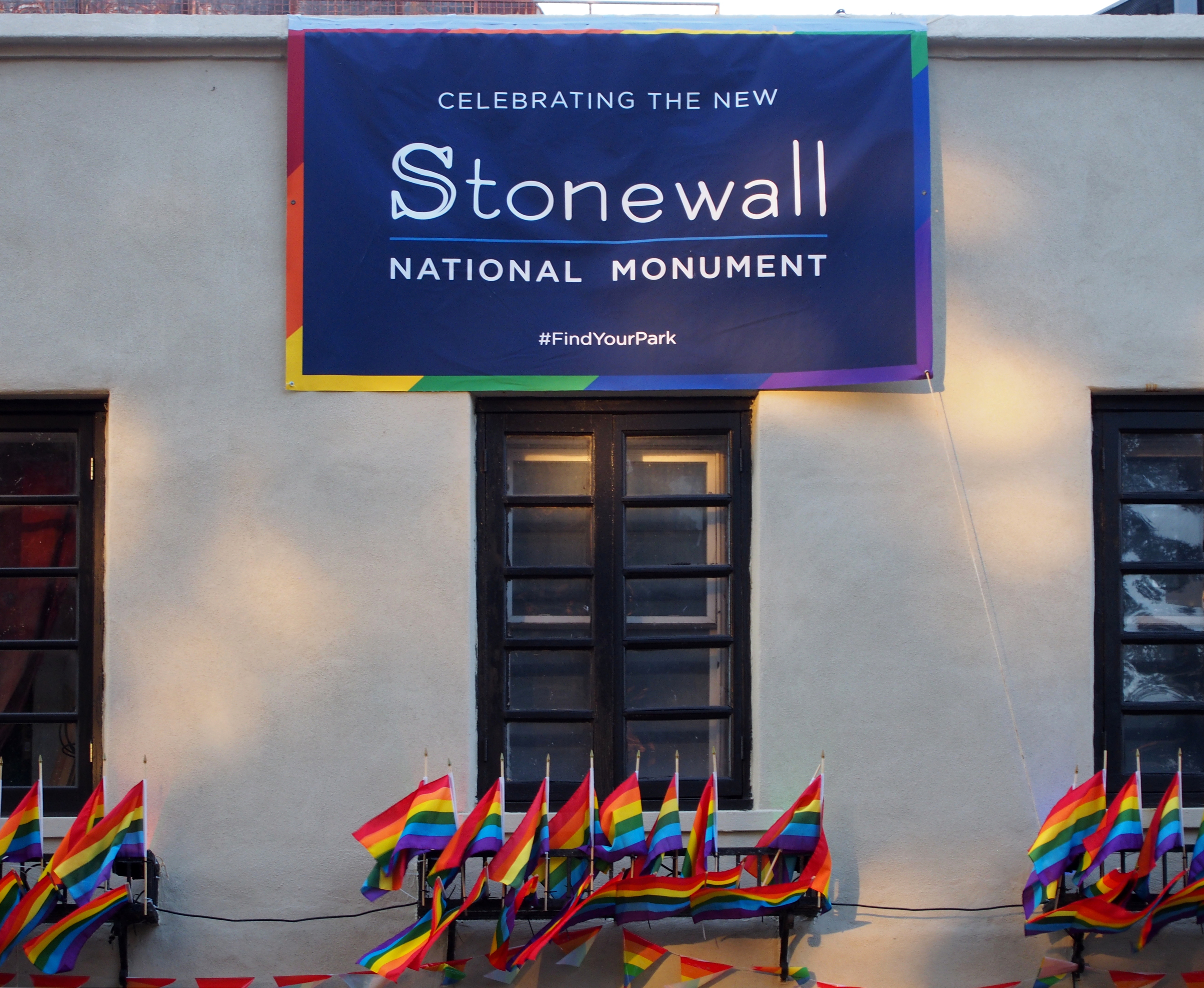 Stonewall Inn, a gay bar on Christopher Street in Manhattan's Greenwich Village. A 1969 police raid here led to the Stonewall riots, one of the most important events in the history of LGBT rights (and the history of the United States). This picture was taken on pride weekend in 2016, the day after President Obama announced the Stonewall National Monument, and less than two weeks after the Pulse nightclub shooting in Orlando.